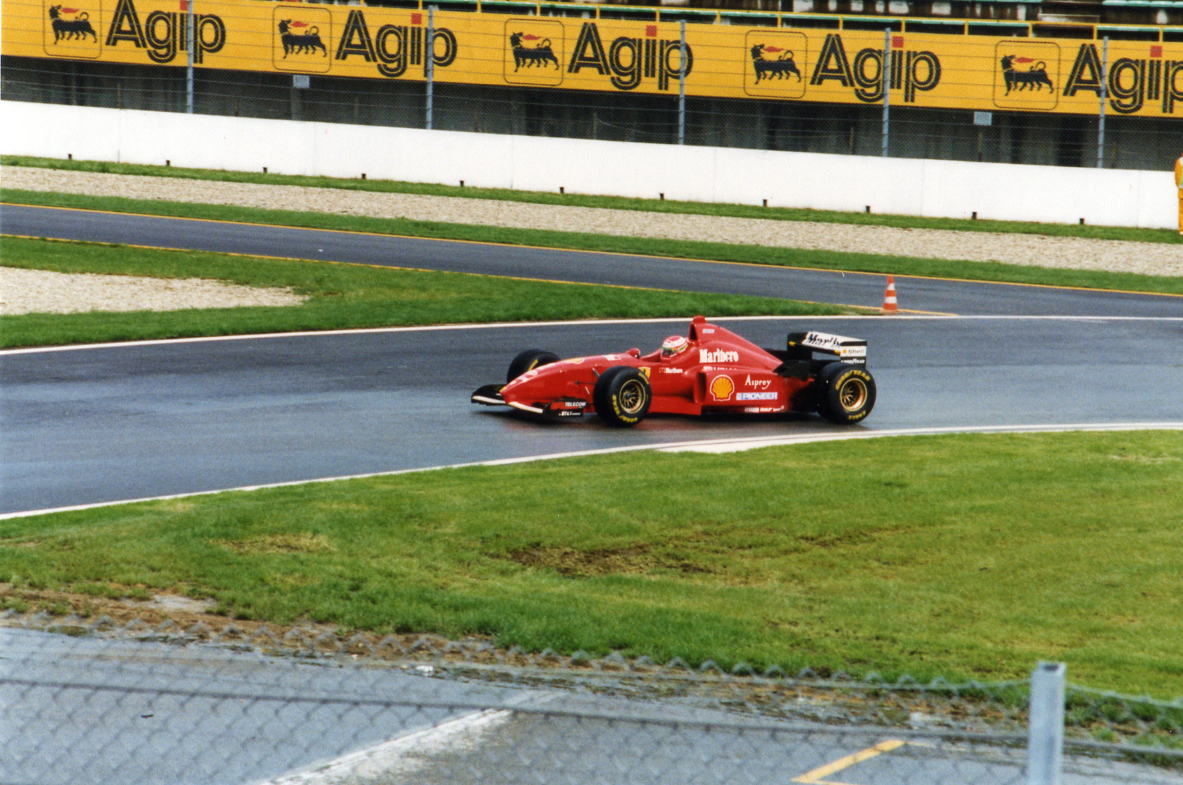 Eddie Irvine during free practice of 1996 San Marino Grand Prix.